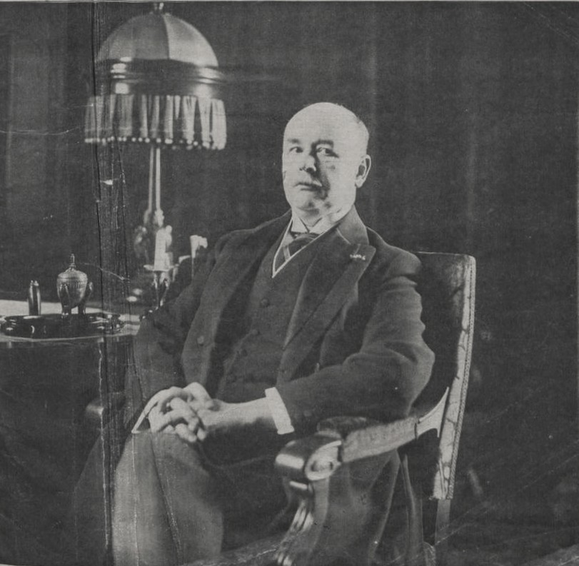 Mayor of Rotterdam